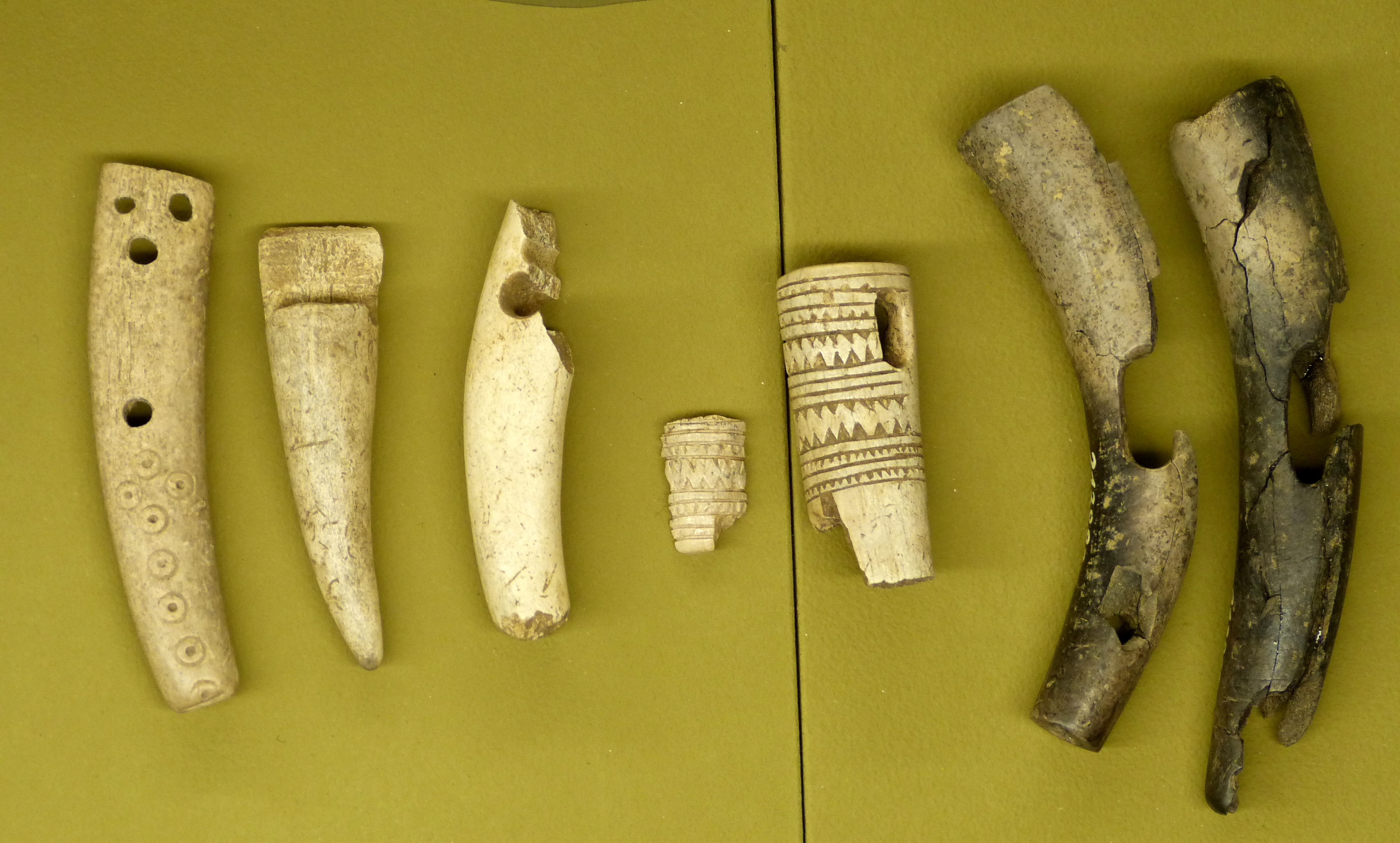 Kelheim ( Lower Bavaria ). Archaeological Museum: Bronze age bits made of antler from Frauenberg ( Weltenburg )